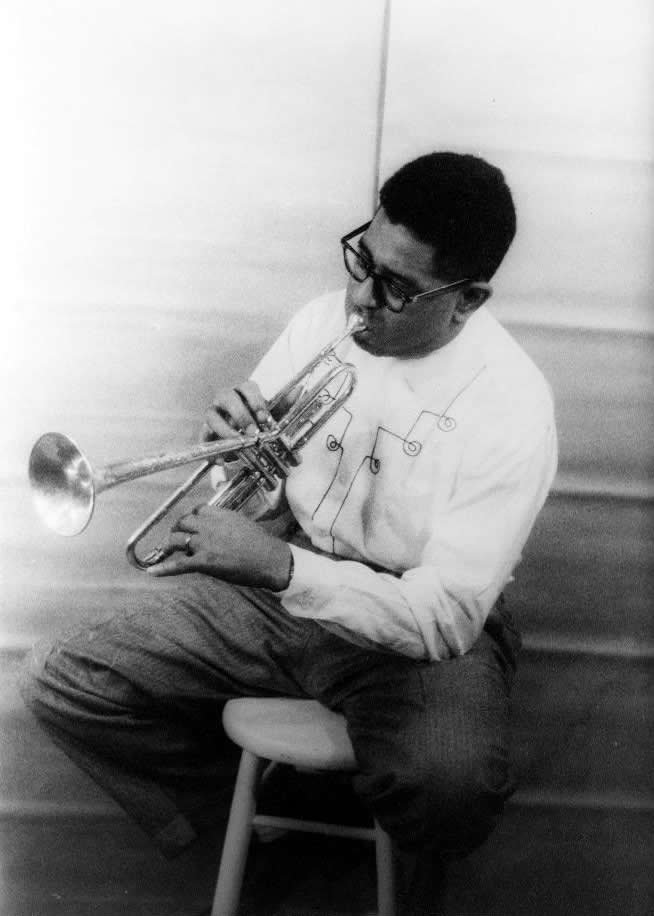 Portrait of Dizzy Gillespie (John Birks), 1955 Dec. 2. Full-length portrait, seated, facing left, playing horn.